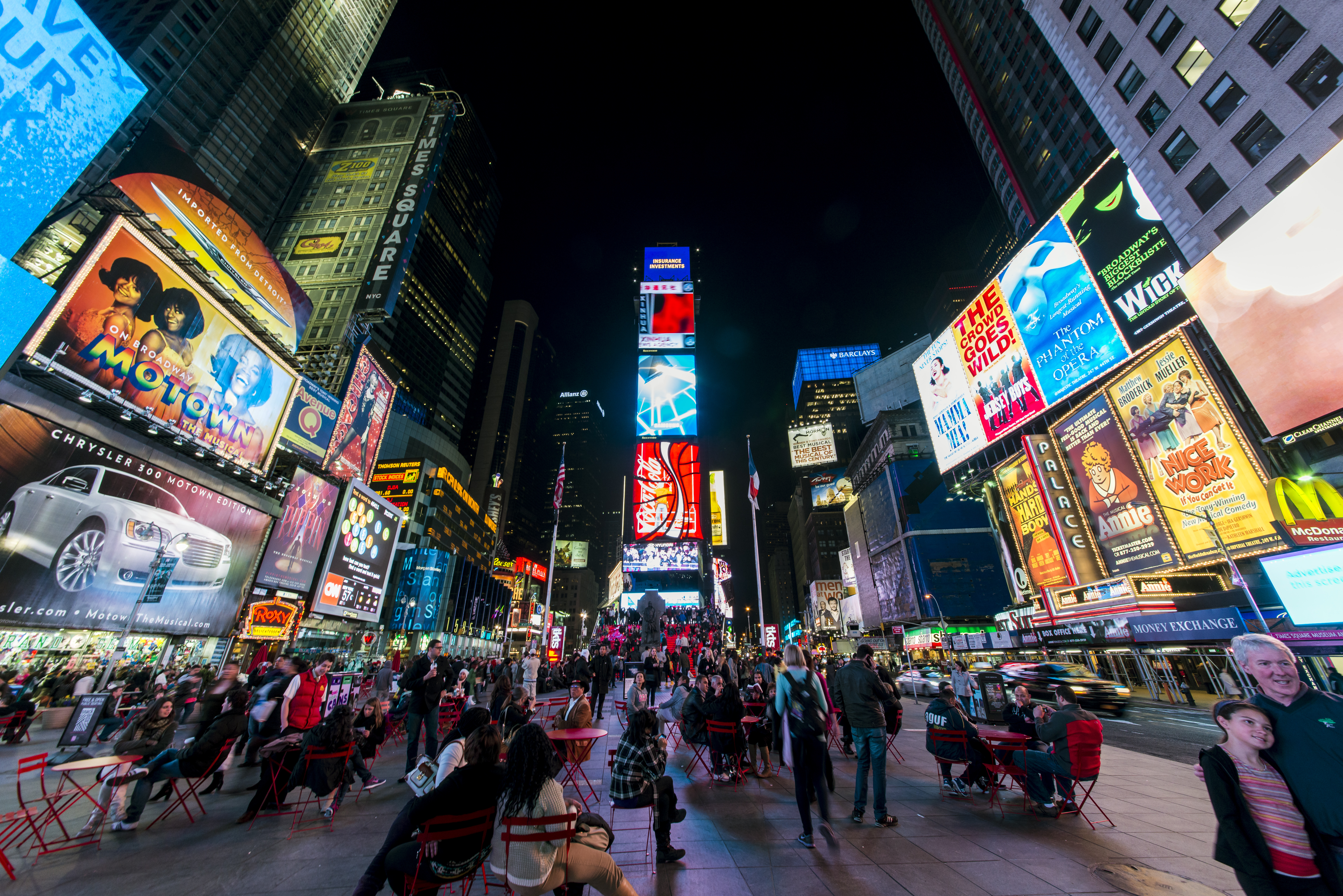 times square night 2013 new york city manhattan